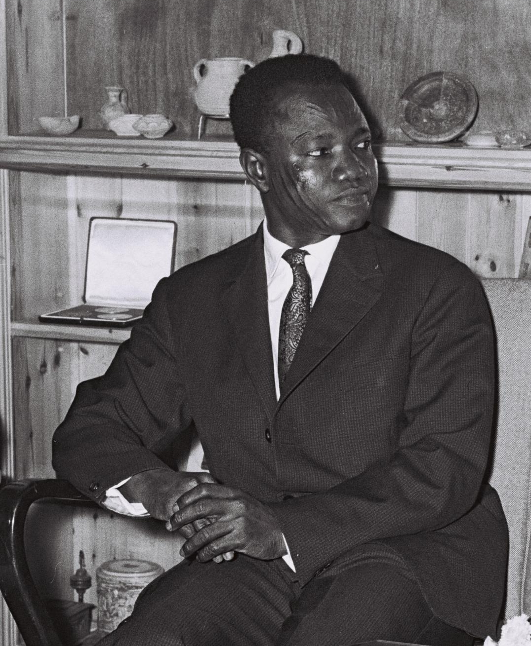 President François Tombalbaye of Chad. Taken during a visit to Israel, October 1959.